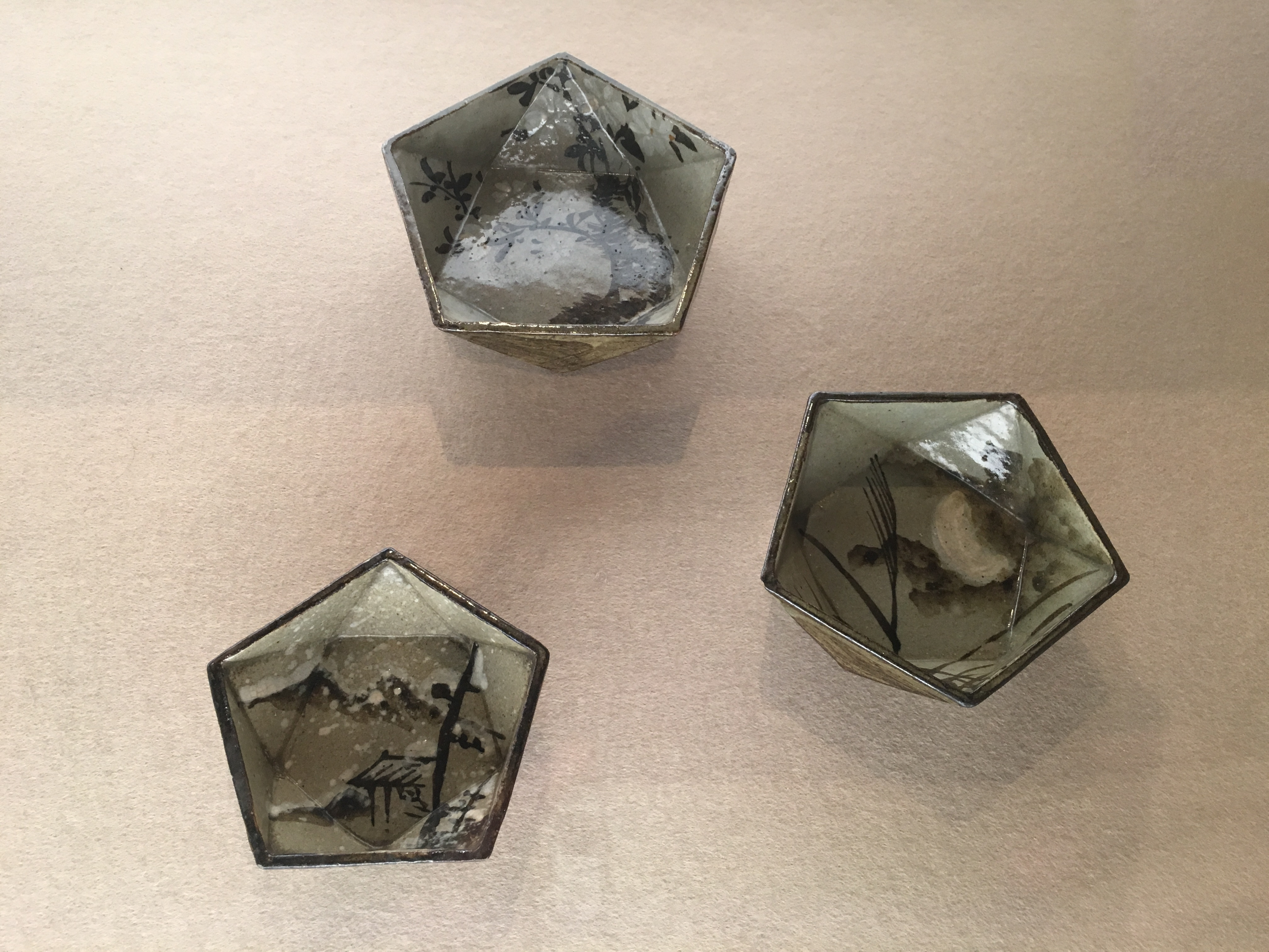 Pentagon bowls, snow, moon and floral design Toyoraku, Toyosuke IV Edo period, 19th century Private collection